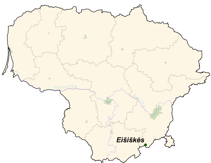 Eišiškės on the map of Lithuania